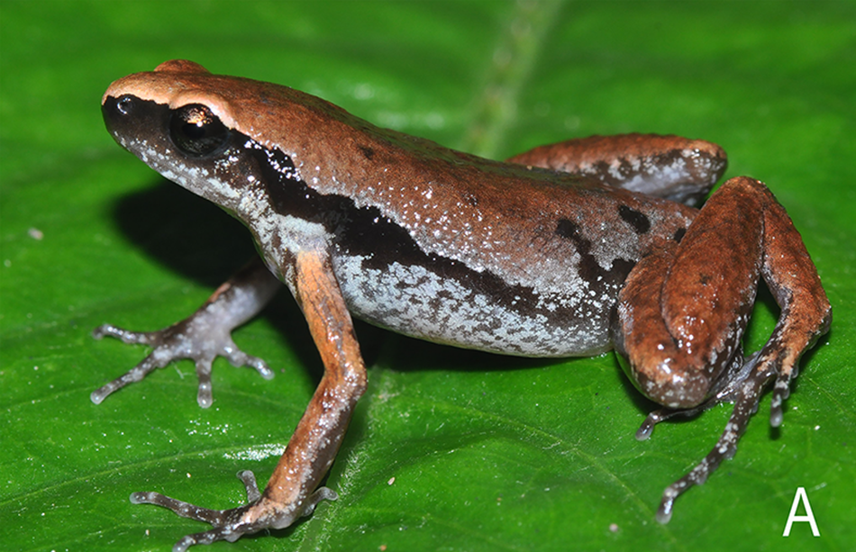 (A) Dorsolateral view (ZSIC 14304, HT). (B) Ventral view (ZSIC 14304, HT). (C) Ventral view of foot (ZSIC 14304, HT). (D) Dorsolateral view (ZSIC 14305, PT). (E) Dorsolateral view showing lateral and groin markings (ZSIC 14310, PT). (F) Dorsolateral view (ZSIC 14310, PT). (G) Frontolateral view (ZSIC 14311, PT). (H) Dorsal view (ZSIC 14311, PT).